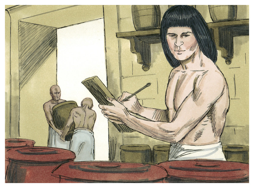 Biblical illustration of Book of Genesis Chapter 39